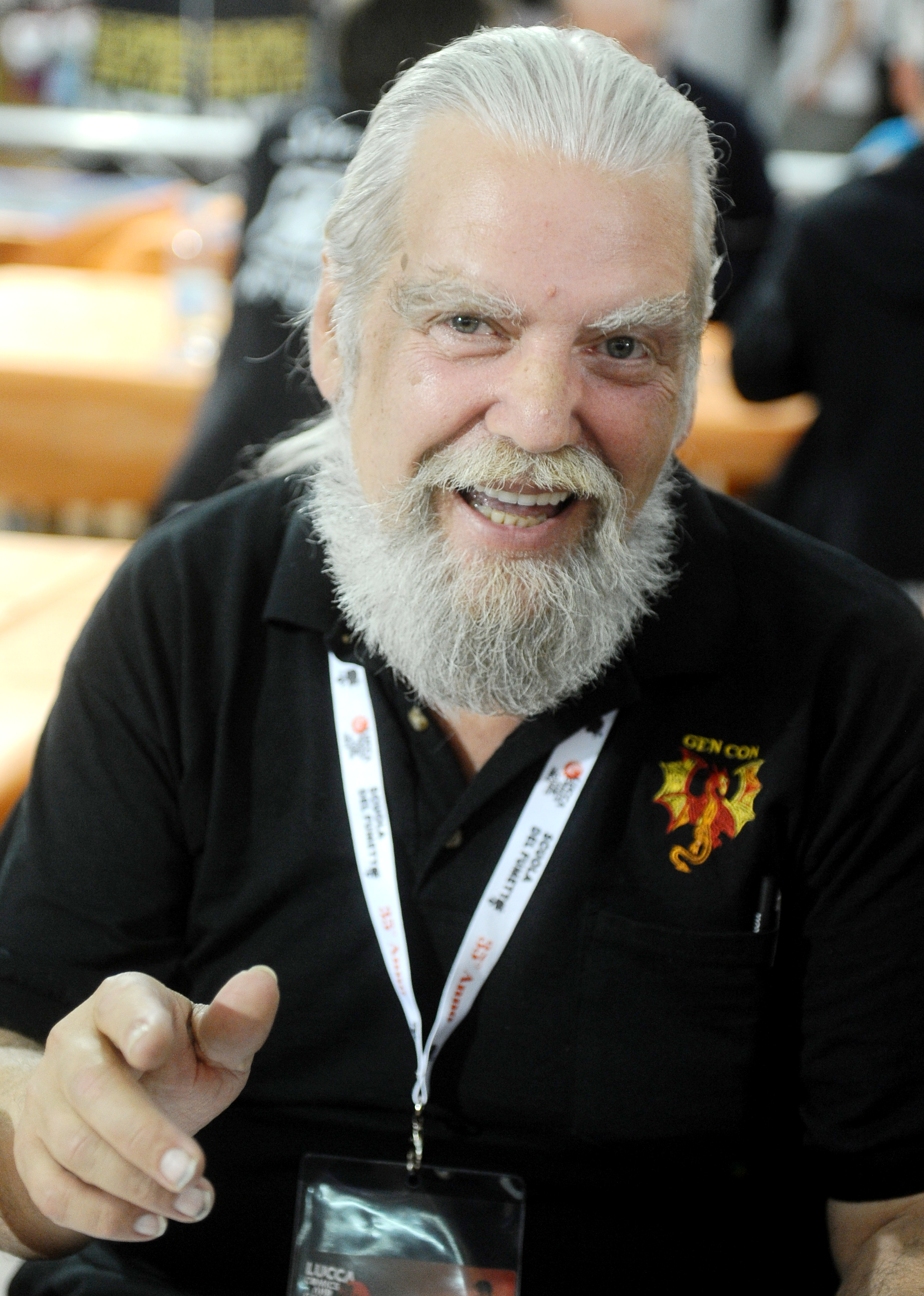 Frank Mentzer at Lucca Comics & Games 2014.